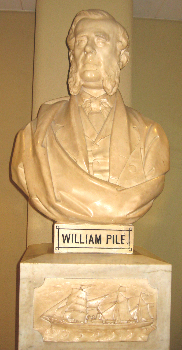 William Pile bust from Sunderland Museum & Winter Gardens Sunderland